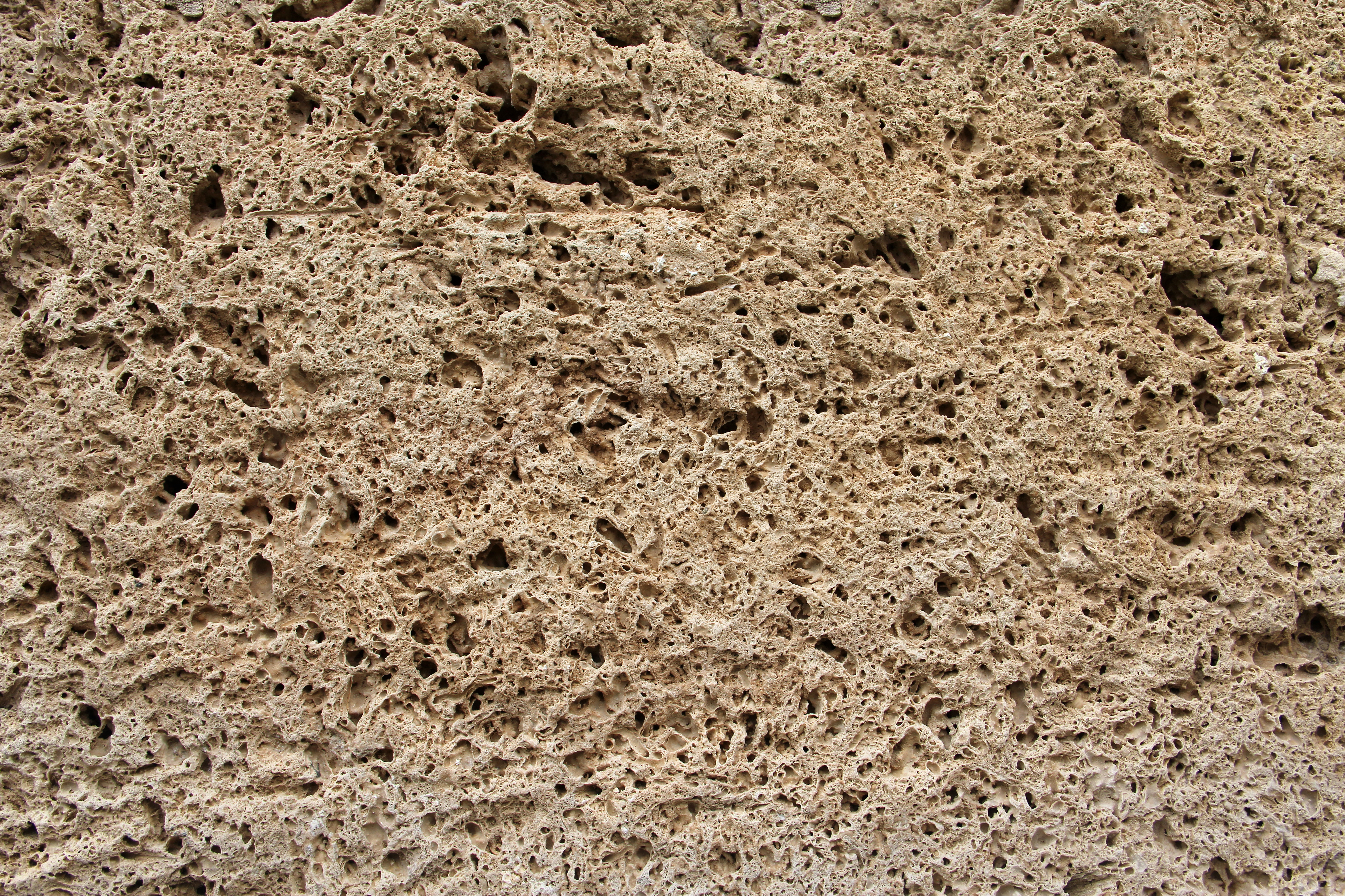 Tufa - the texture of the cut block.